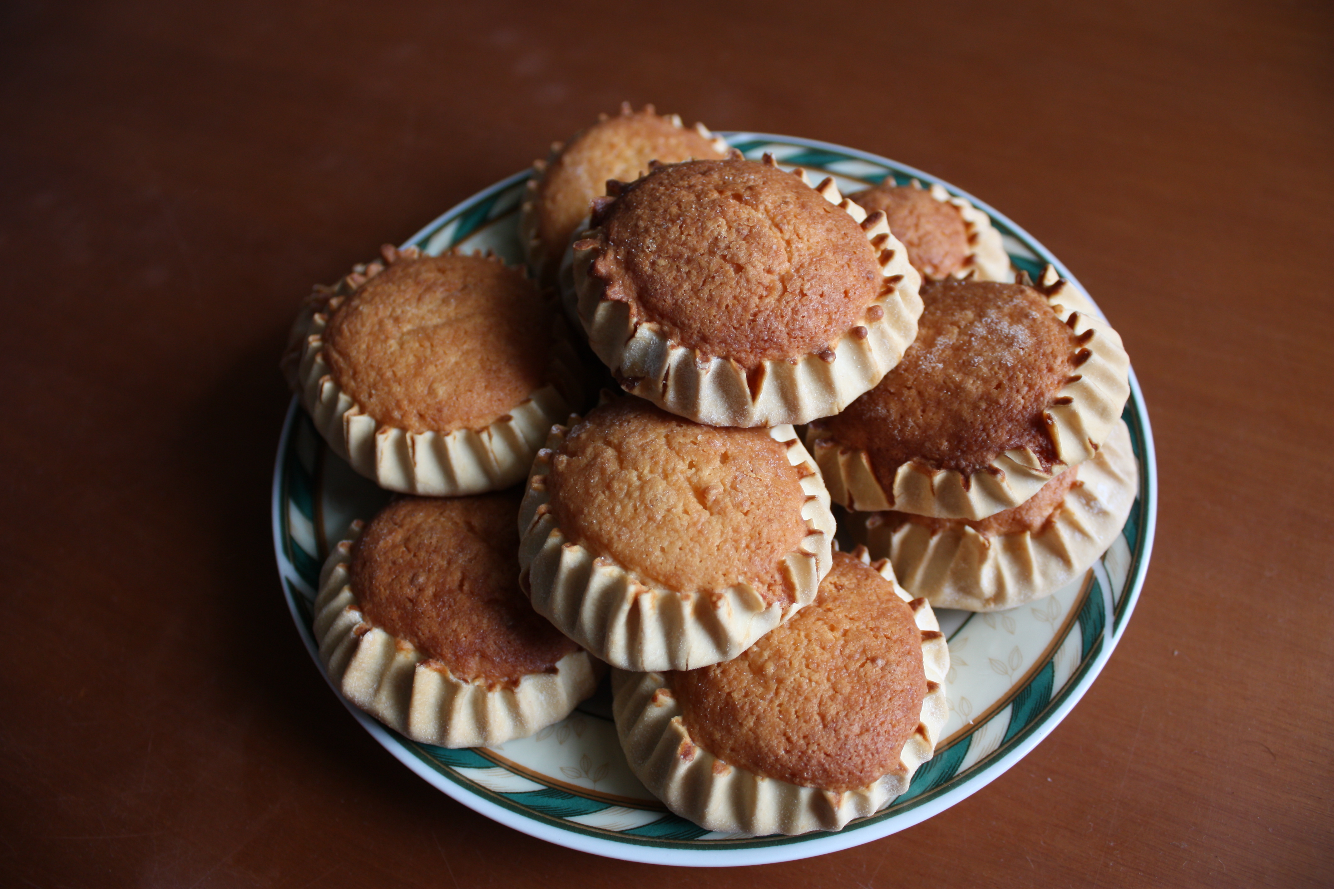 Melitinia cookies